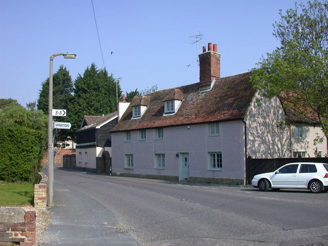 Frogge End, Frogge Street, Ickleton, Cambridgeshire. Late 15th or early 16th century house, rebuilt re-using medieval timbers in th e17th century. Timber-framed and plastered with C20 pargetted render to brick casing. Plain tiled roof with fish scale pattern. Tall rectangular planned ridge stack. Grade II listed.